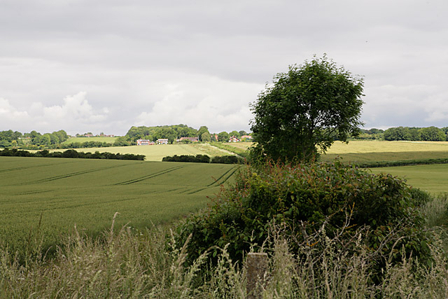 Looking along byway towards Palestine The houses in the distance are on Mount Carmel road. The byway to Castle Farm follows the hedge line beyond the tree at right.